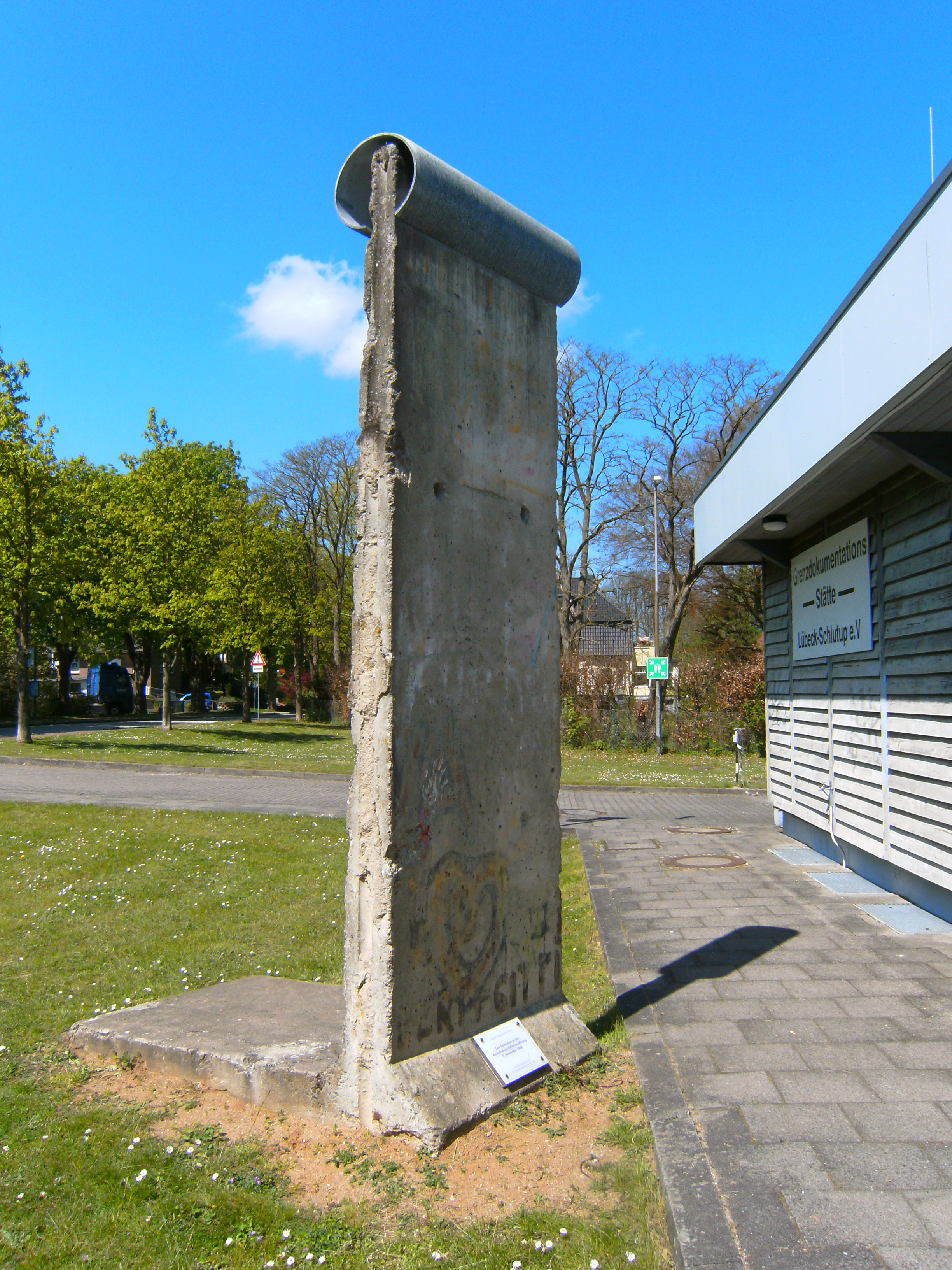 Lübeck-Schlutup, Germany: Documentation house GDR in the Mecklenburger Straße 12. Original segment of the Berlin Wall.